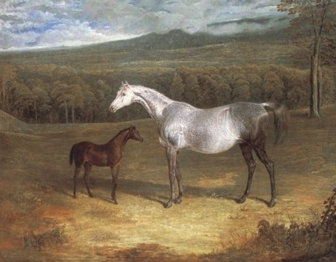 Jack Spigot (1821 St. Leger winner) as a foal with his foster mother